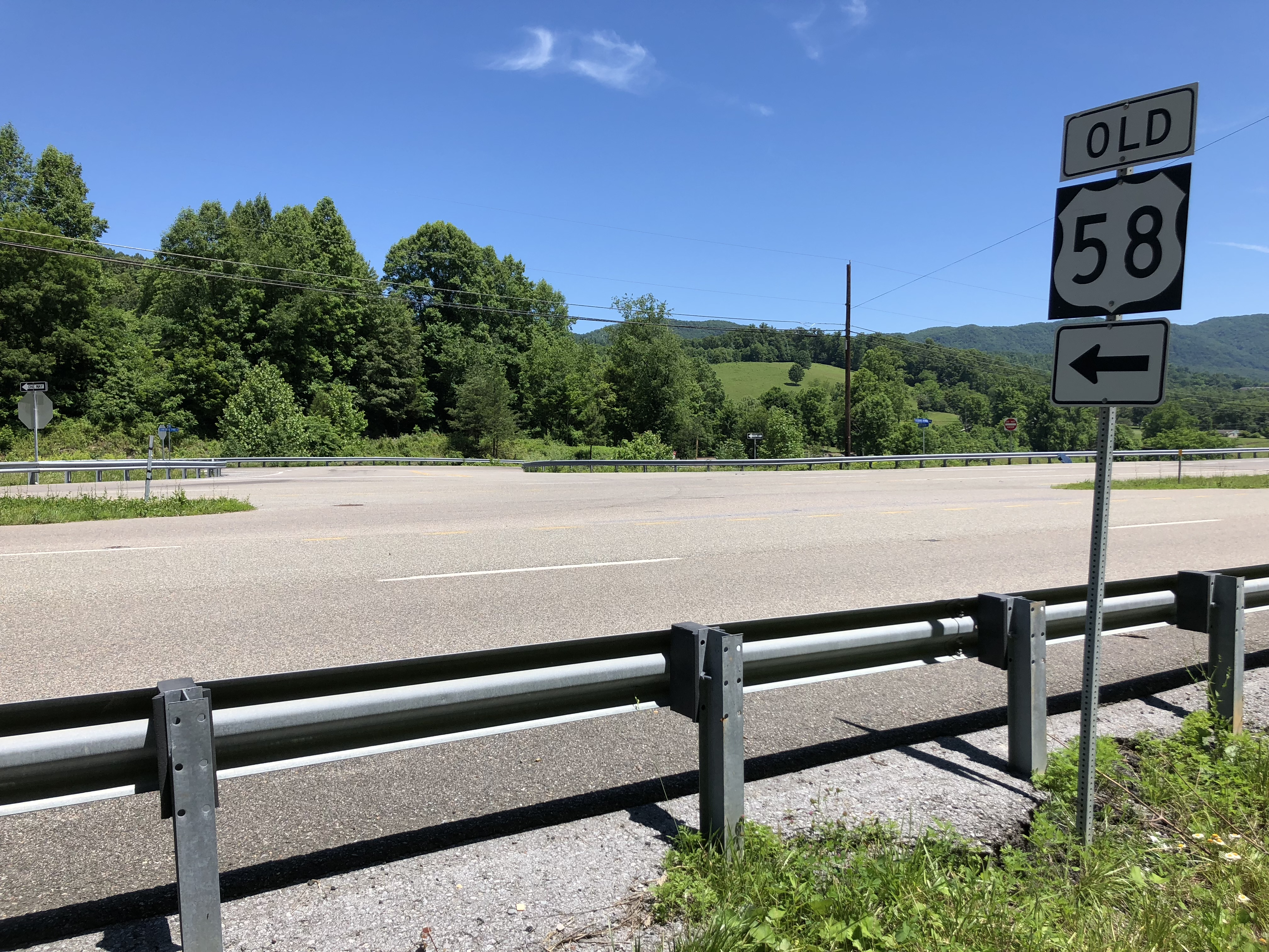 View east along U.S. Route 58 Old (Dryden Loop) at U.S. Route 58 Alternate (Trail of the Lonesome Pine) in Dryden, Lee County, Virginia